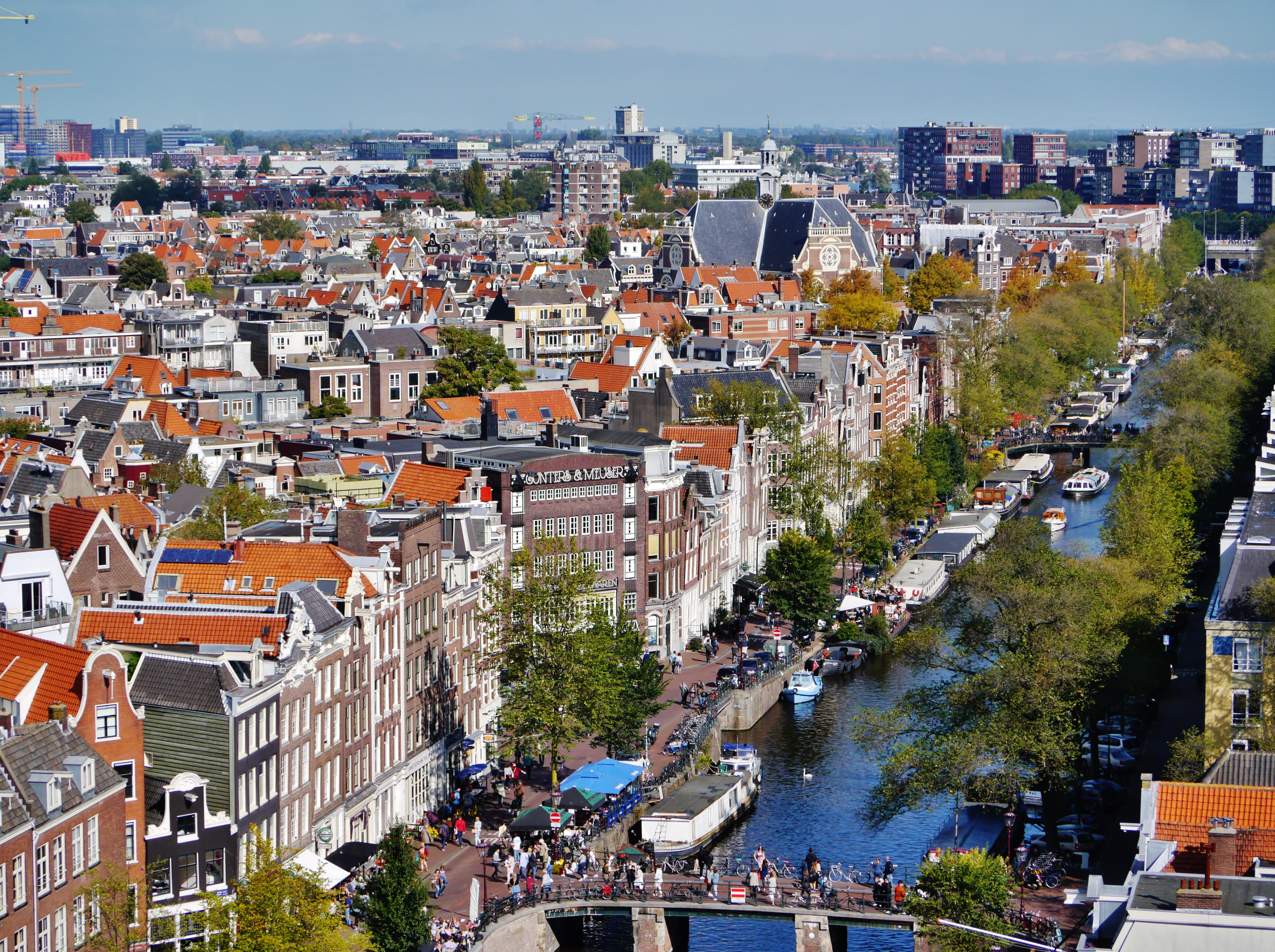 View from the Tower of the West Church to the Prince's Canal, Amsterdam, Province of North Holland, Netherlands